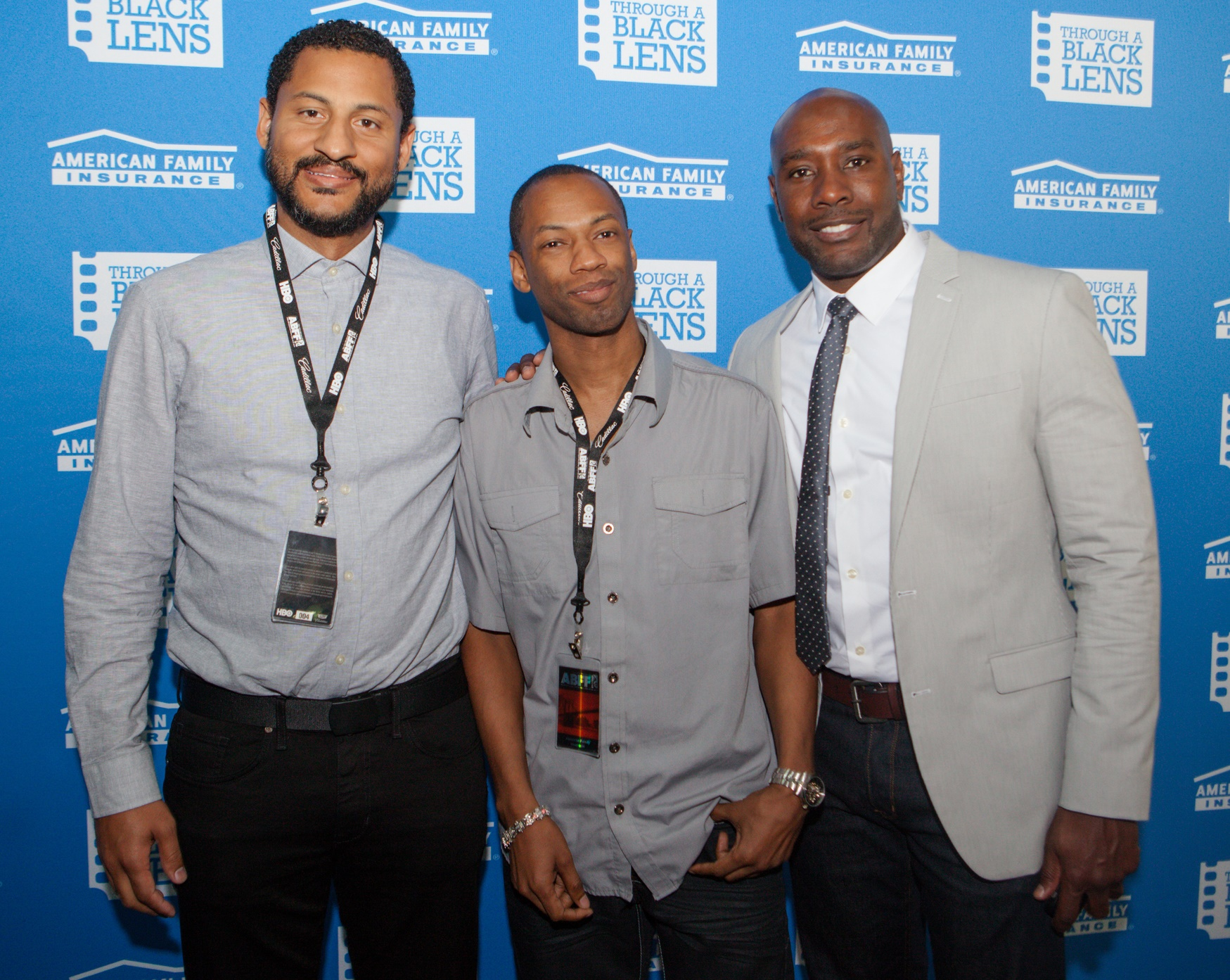 American Black Film Festival red carpet premiere of "Brakedown", a short film directed by Morris Chestnut and inspired by Tone Williams. Left to right: Dylan Brown (Co-producer), Tone Williams and Morris Chestnut